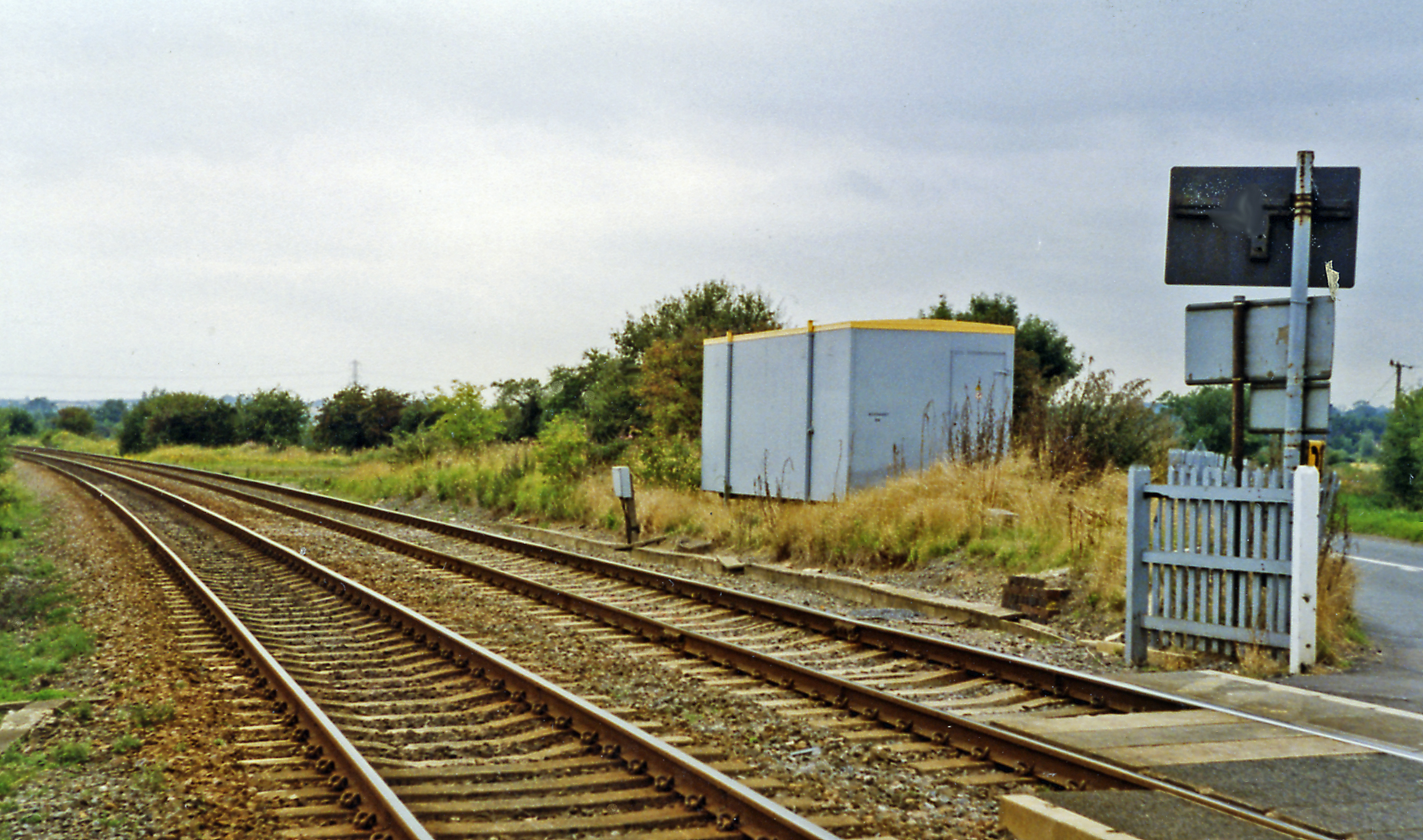 Site of Asfordby station, 1993. View westward, towards Leicester: ex-Midland Leicester - Melton Mowbray - Saxby - Manton - Peterborough main line. The station was closed to passengers from 2/4/51, to goods 4/5/64 - so no trace left nearly 30 years later.